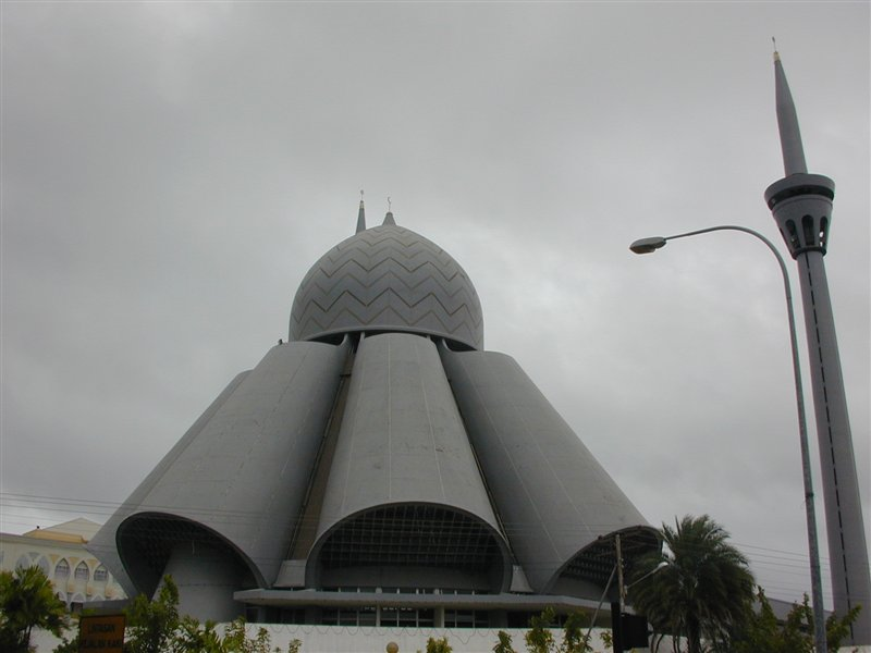 An'Nur Jamek Mosque in Labuan.